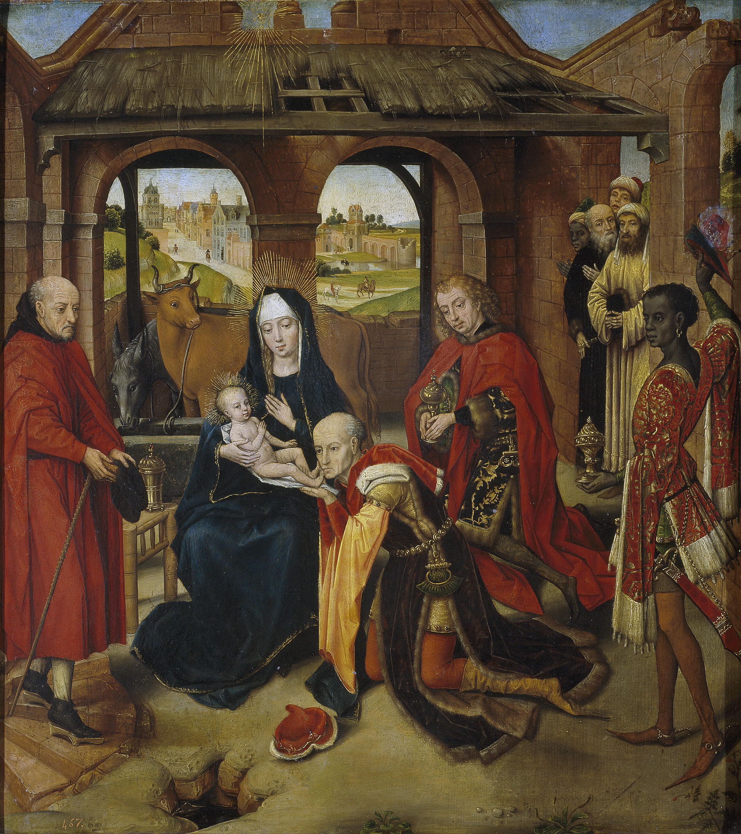 Free copy of the central panel of Columba Altar of Roger van der Weyden (Munich, Alte Pinakothek)